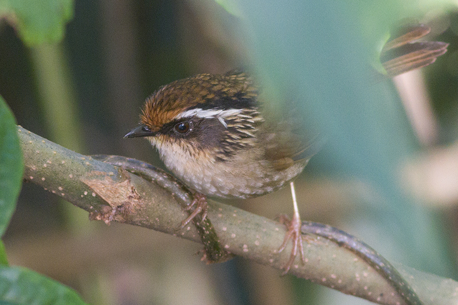 The image of Rusty-capped Fulvetta had been captured during the birding tour of GoingWild in Khonoma, Nagaland, India on 03.11.2016.